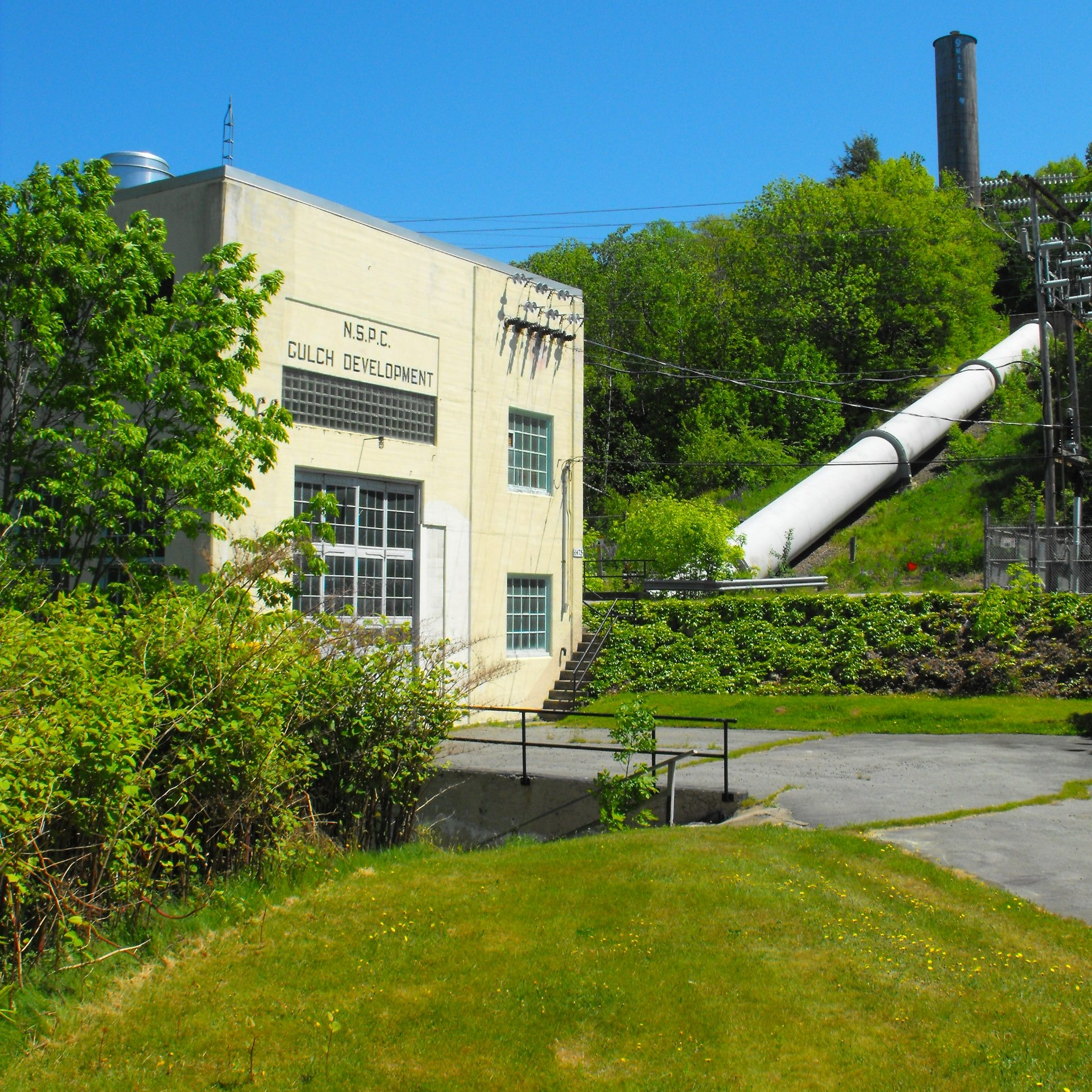 NSPC Gulch Development, hydroelectric station on branch of the Bear River, Nova Scotia